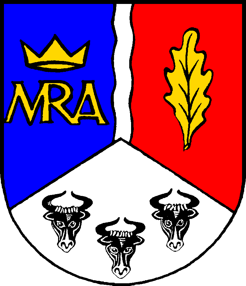 Marienloh: Coats of Arms